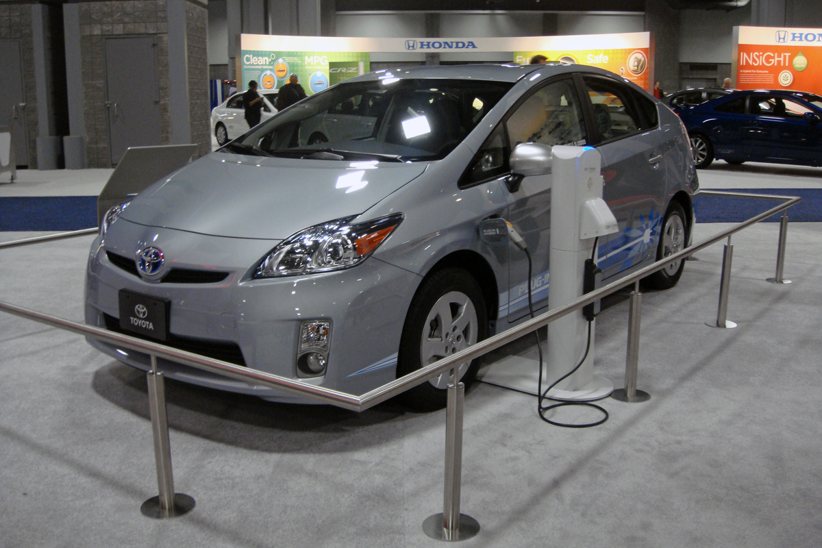 Toyota Prius Plug-in Hybrid demonstration program vehicle at the 2010 Washington Auto Show (D.C.)